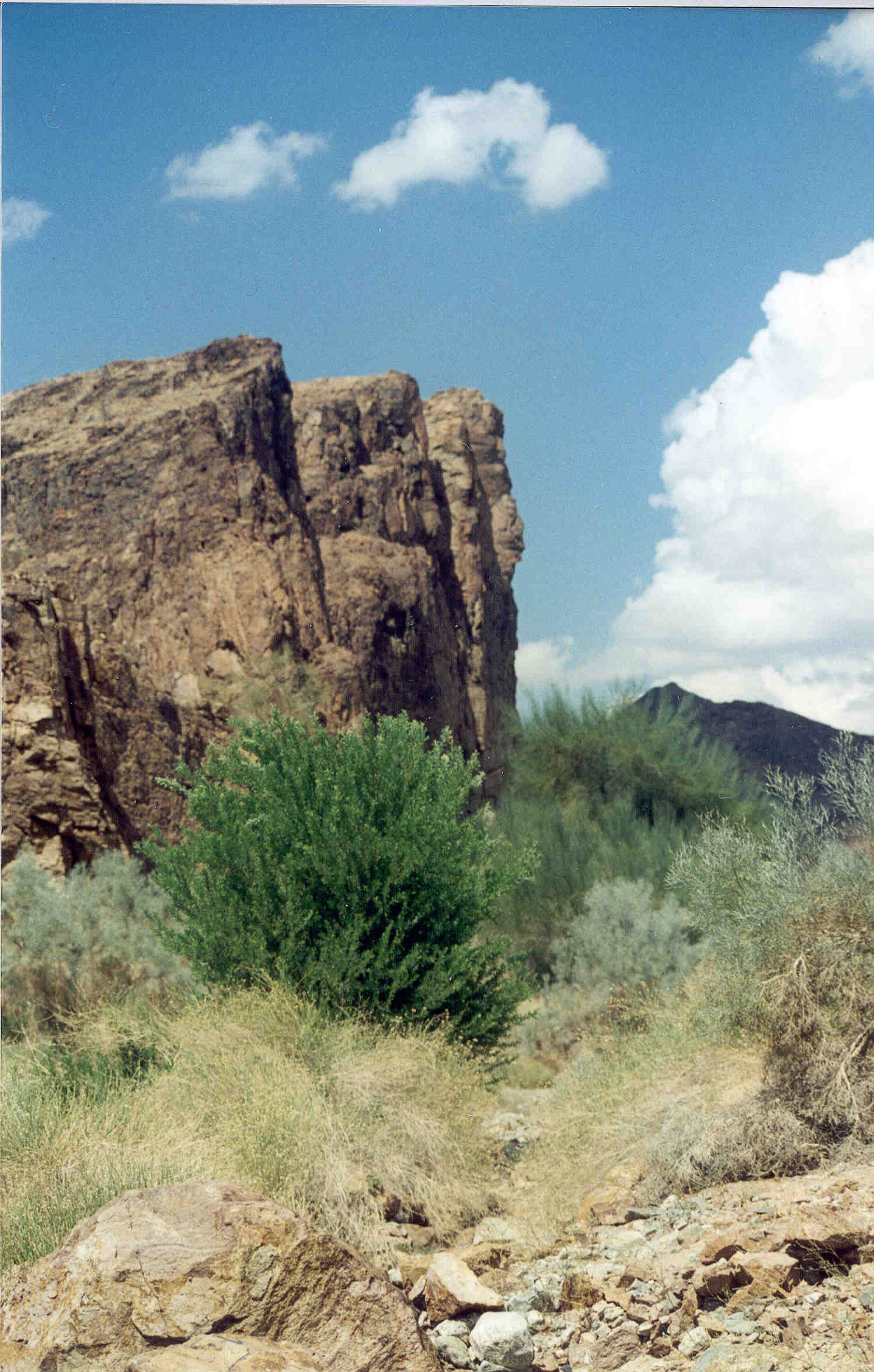 Morgan Peak in the Muggins Mts Wilderness Area Filename : yfomugginsmorgan.jpg